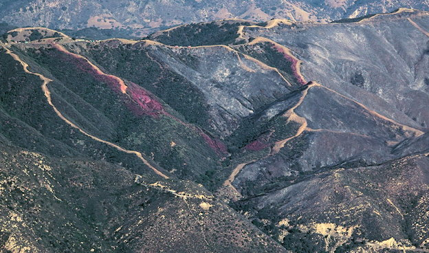 Aerial: Northwest edge of Thomas Fire in Santa Barbara County, CA on December 19, 2017. This is the area where the farthest portion of the Thomas Fire's spread toward the West was stopped, near Gibraltar Road on the West and at Camino Cielo on the North.